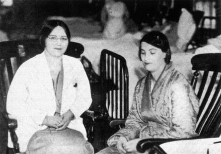 Picture of Dr. Mary Broadfoot Walker (left), with patient Dorothy Codling (right) taken at St. Alfege's Hospital, Greenwich, London, U.K., in 1934